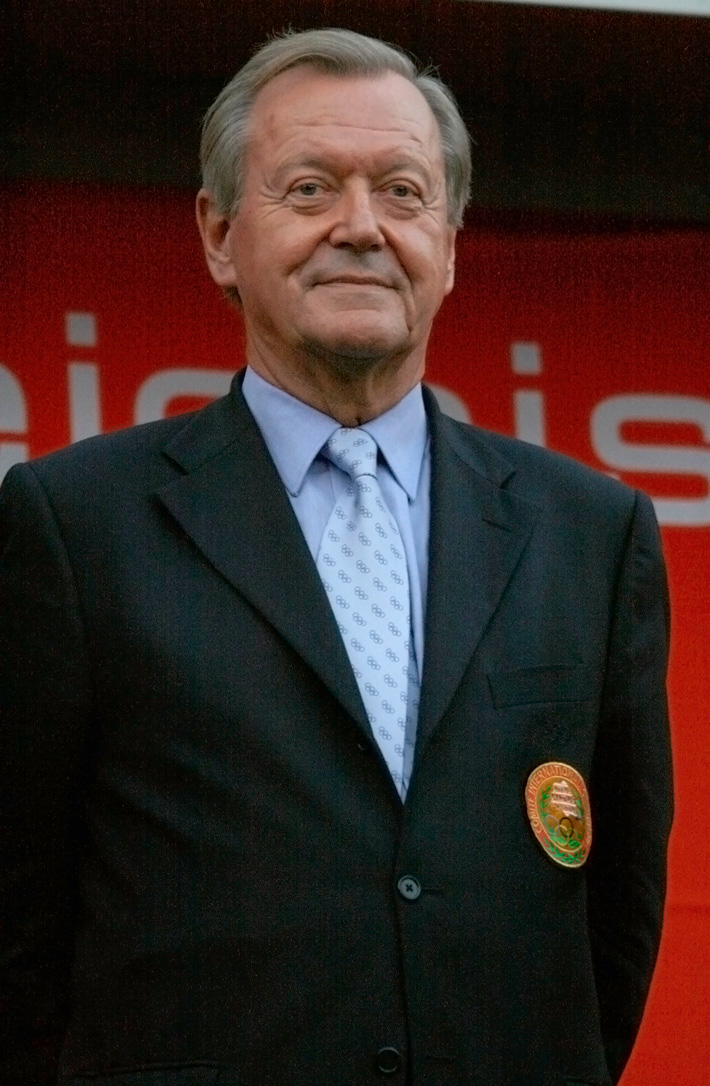 Austrian sports functionary Leo Wallner.